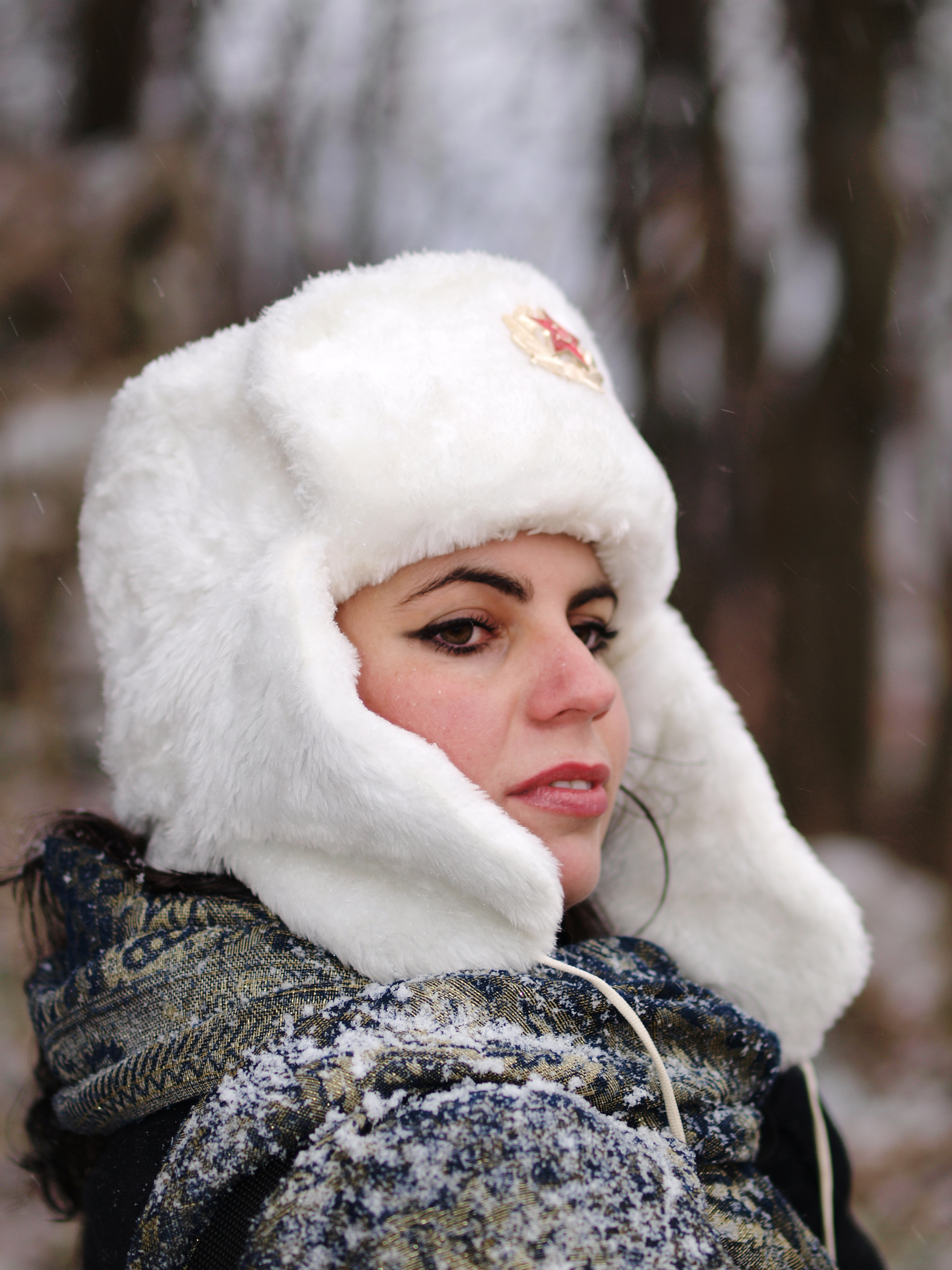 White Russian ushanka, used as parade ushanka. Today is popular winter wear.